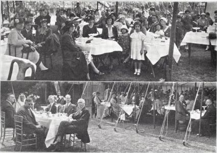 The Times newspaper clipping. Caption reads: Top: "British Muslims welcome a Prince" Bottom: "Imam of the London Mosque...gave a reception there on Wednesday to meet the Crown Prince of Saudi Arabia. His Royal Highness was present for more than two hours, and Arabic prayers were recited by British Moslems"